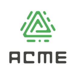 Icon of the Automatic Certificate Management Environment protocol.